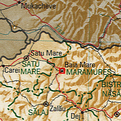 Map of Baia Mare Municipality, Romania.